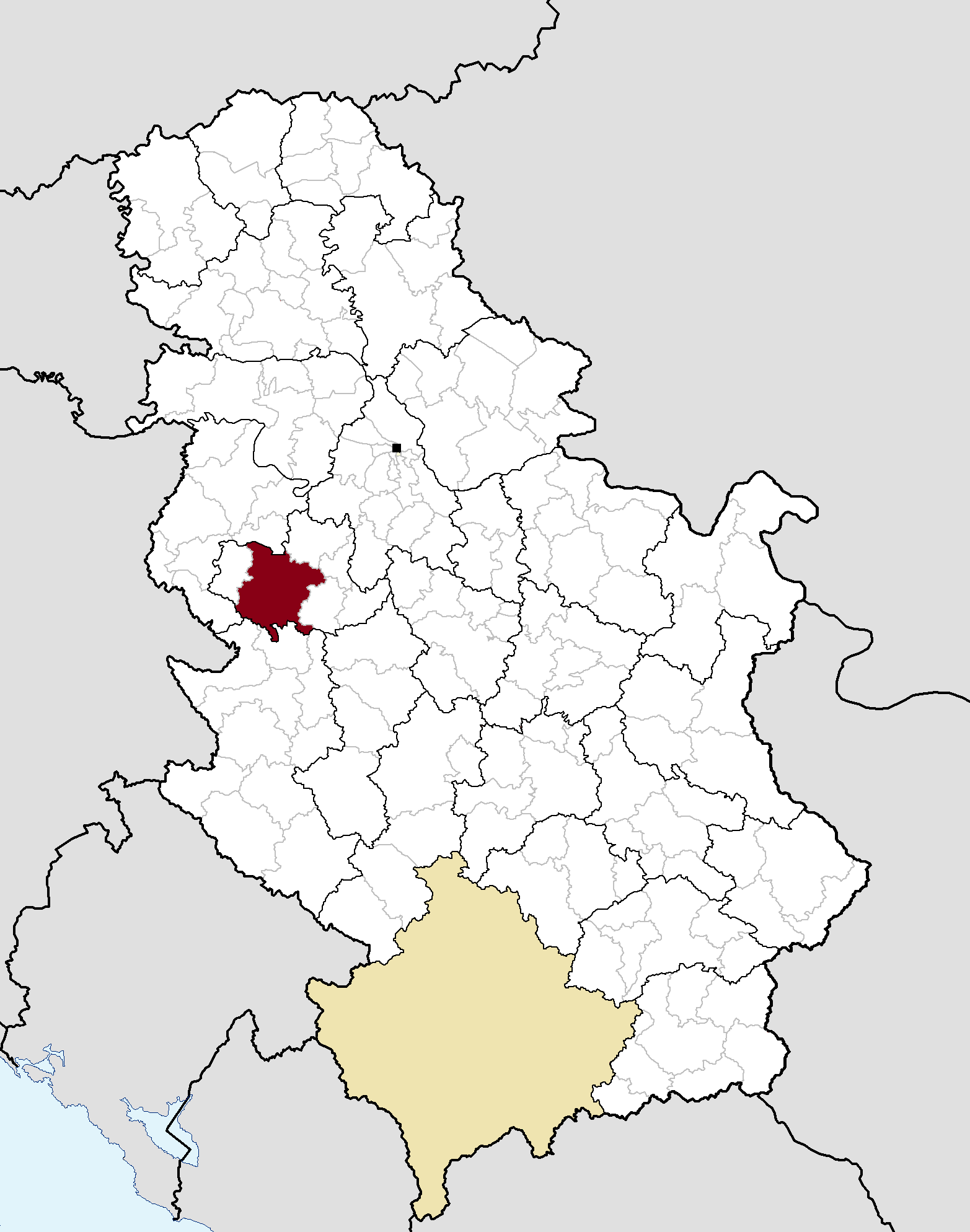 Municipal location in Serbia